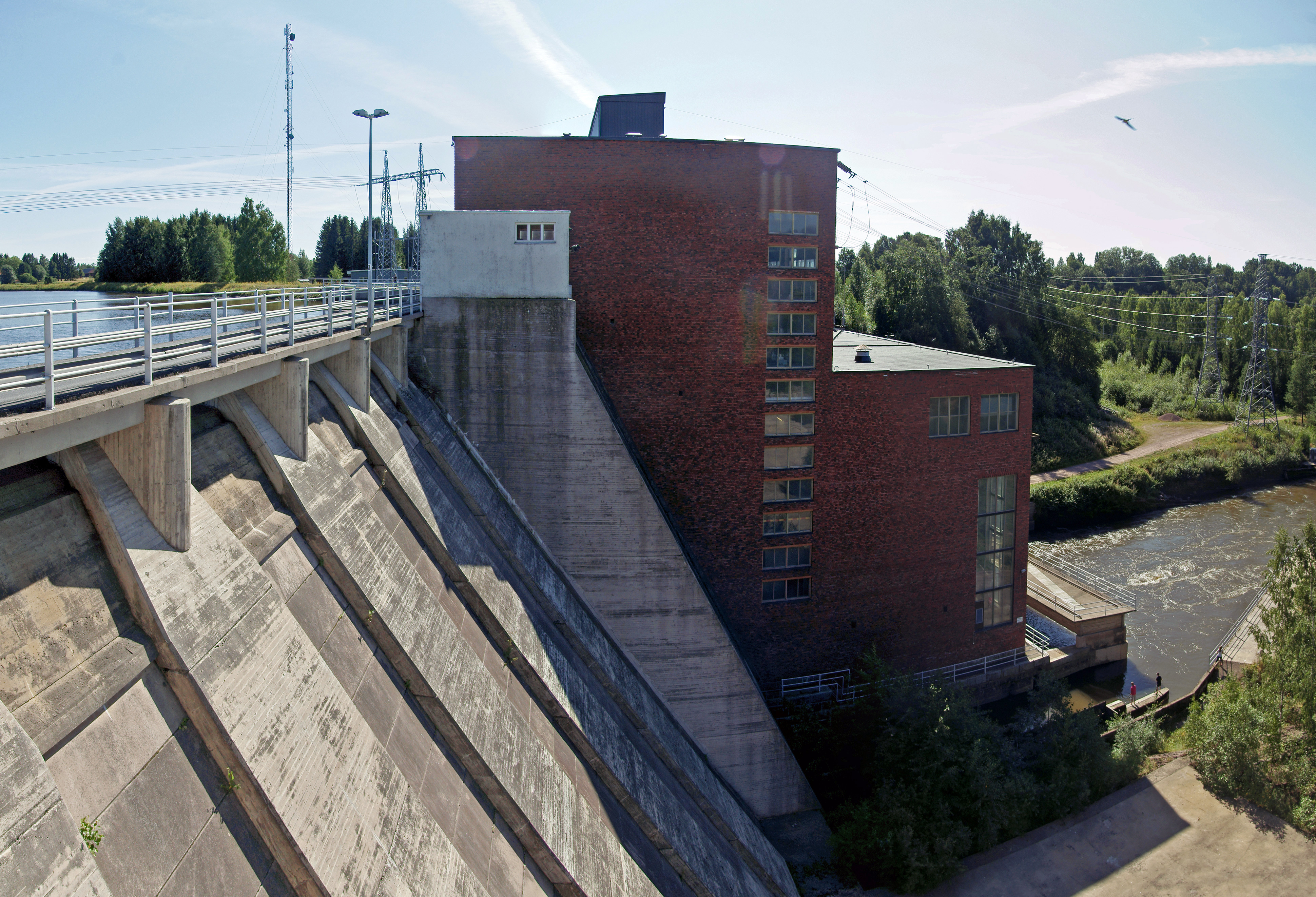 Hydroelectric plant of Harjavalta.